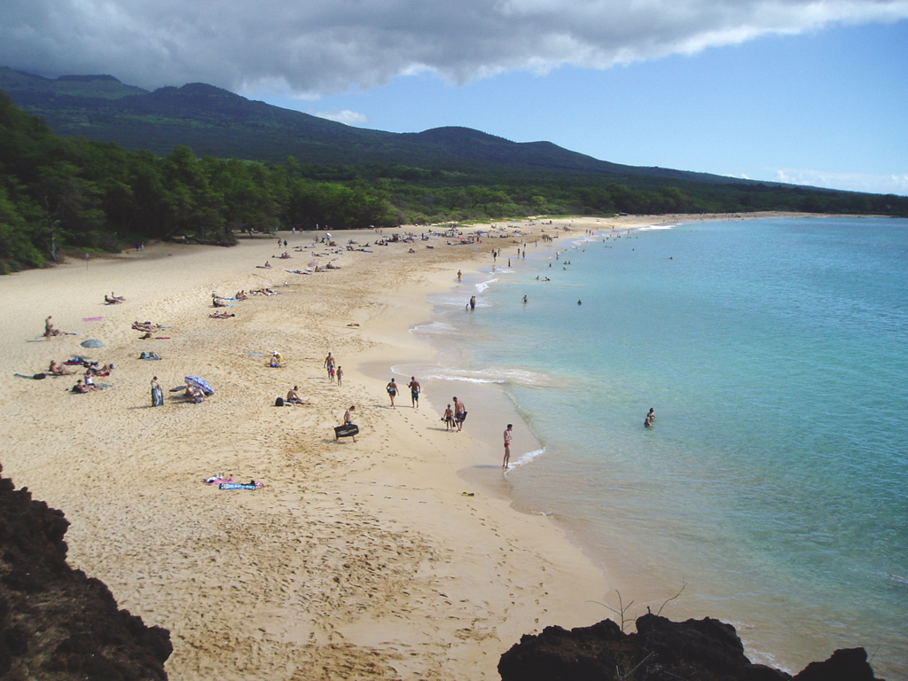 Photo of "Big Beach", Makena State Park, Maui, Hawaii